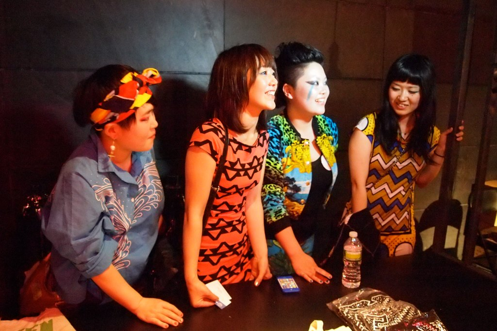 The Suzan at J-Cation 2012 - 4/14/12 - 113